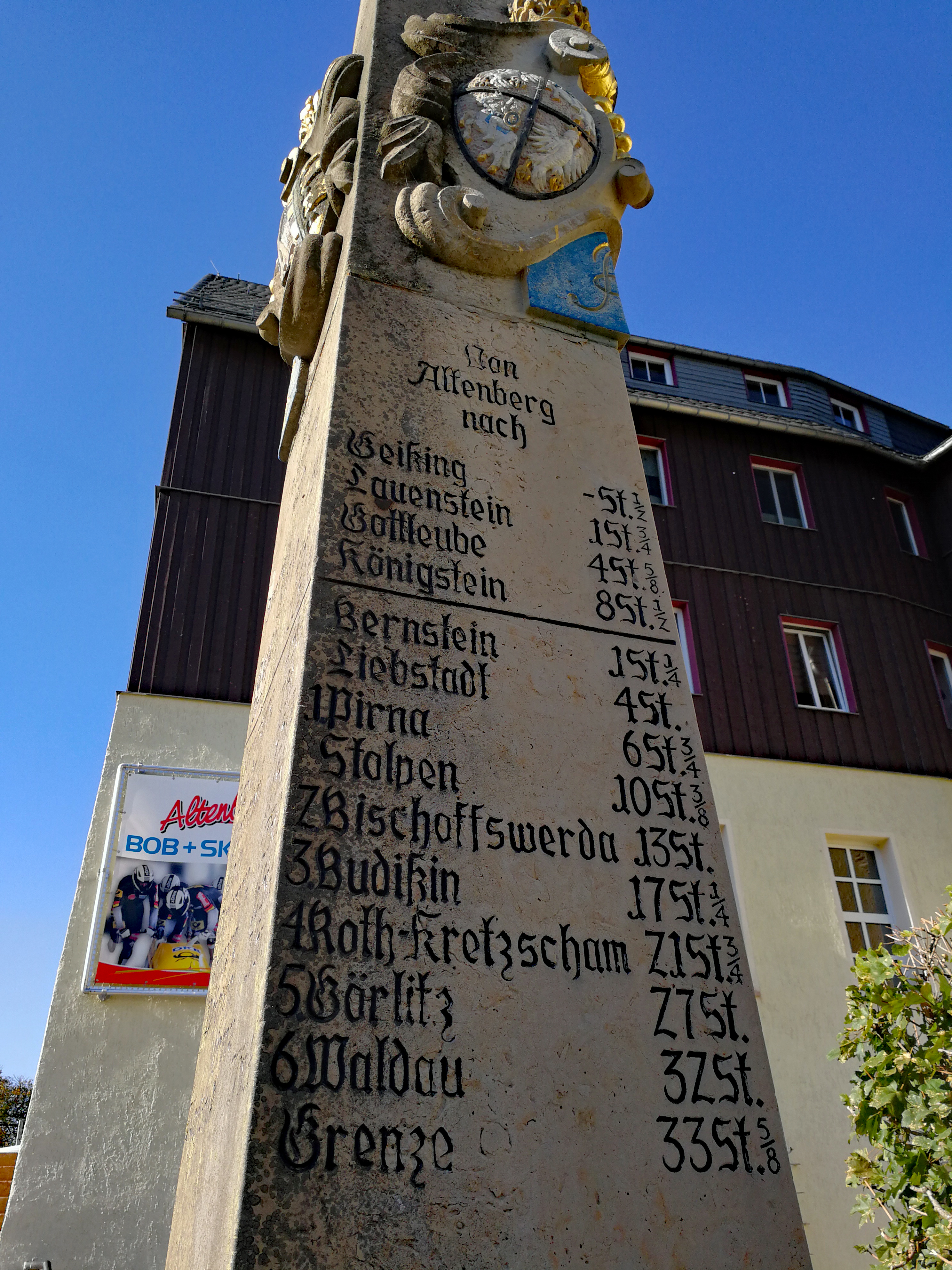 Polish-Saxon Post Milestone in Altenberg (Saxony, Germany)